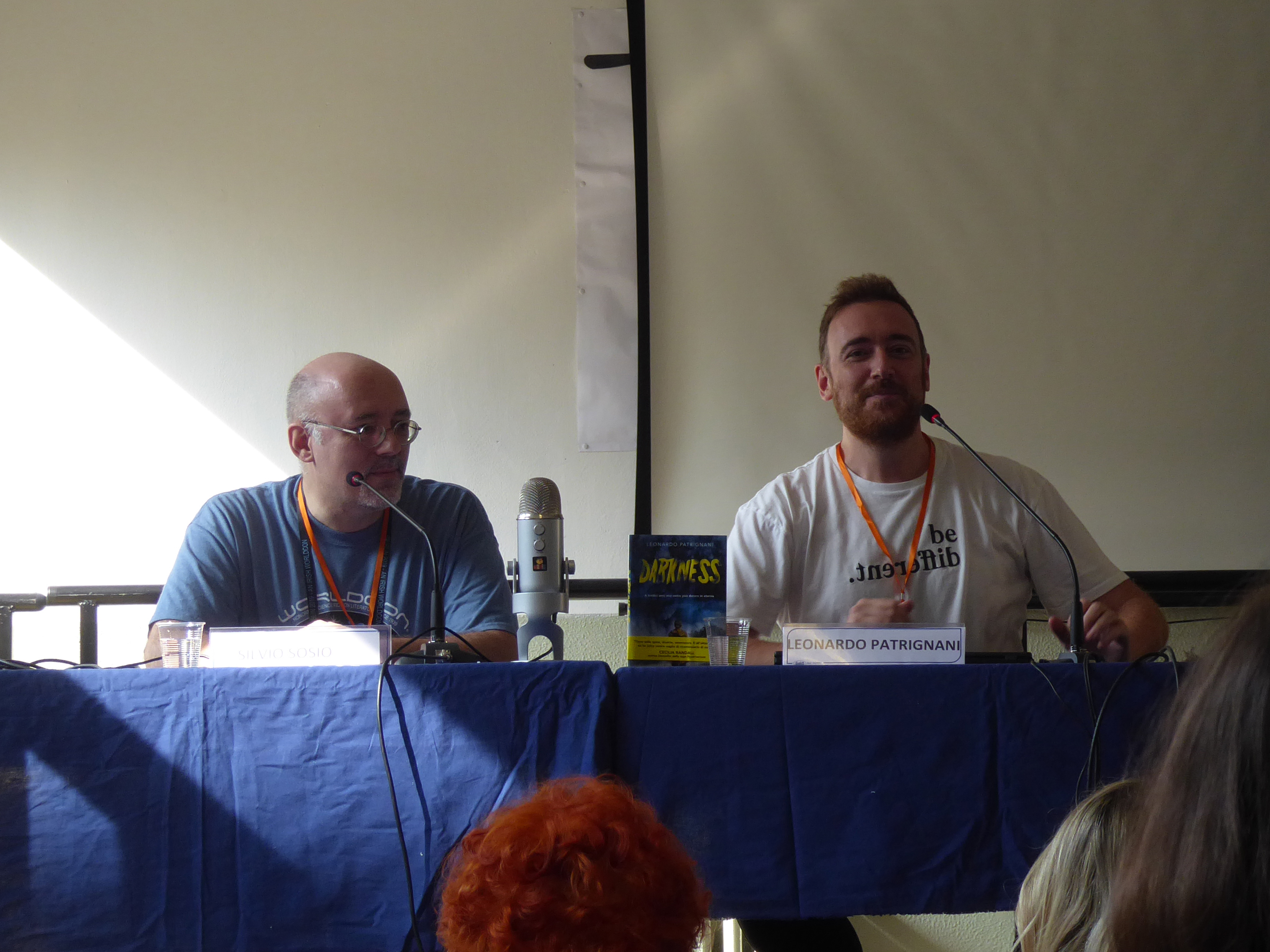 Leonardo Patrignani and Silvio Sosio at Stranimondi 2019 in Milan